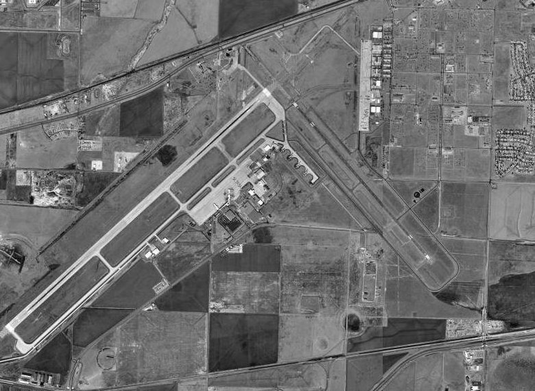 Amarillo Airport, TX - 16 Feb 1997. Route 66 once passed through this area.